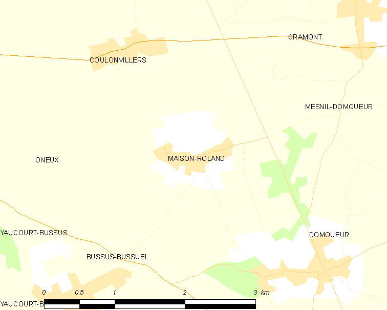 Map of French municipality Maison-Roland